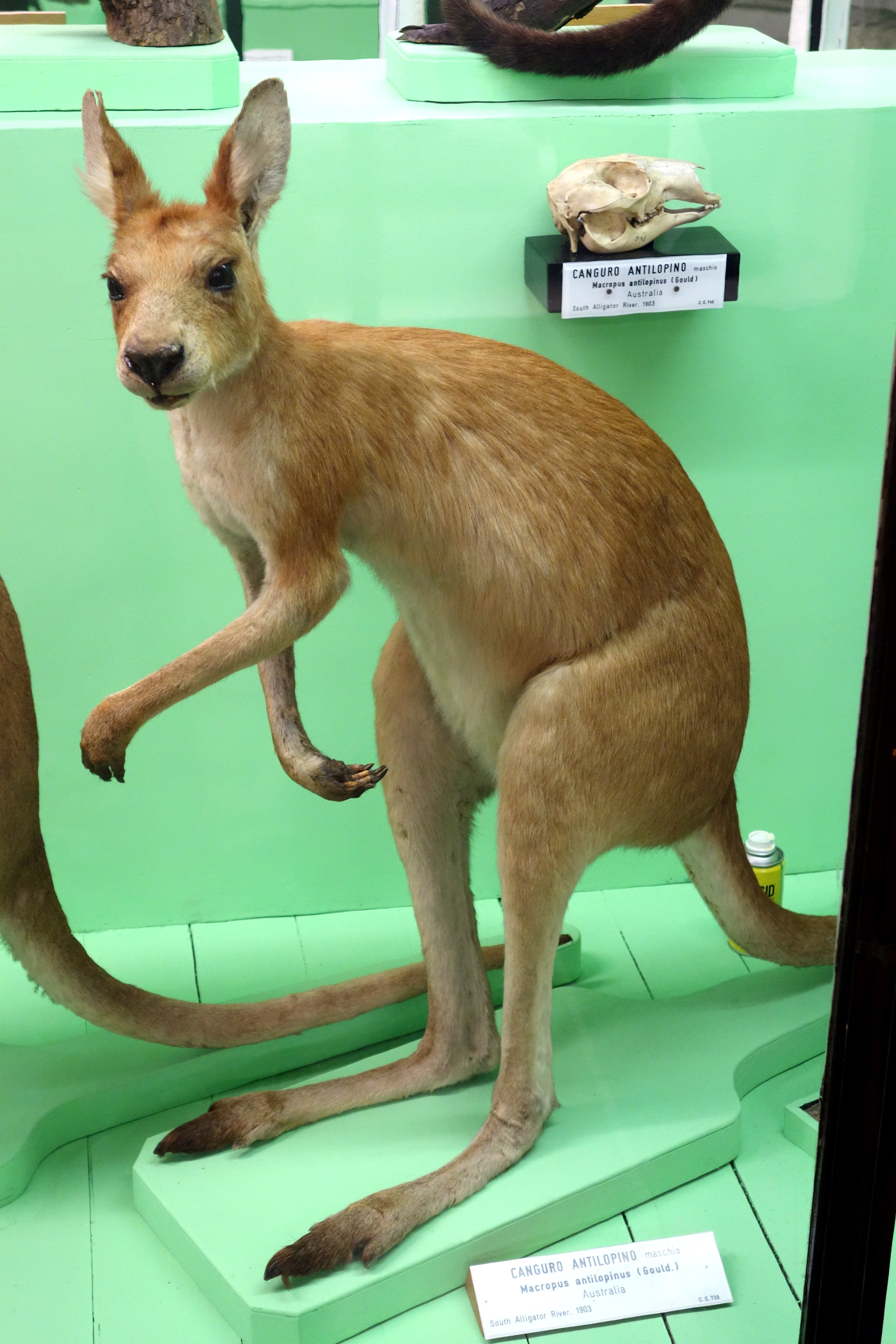 Exhibit in the Museo Civico di Storia Naturale di Genova, Via Brigata Liguria, 9, 16121, Genoa, Italy.